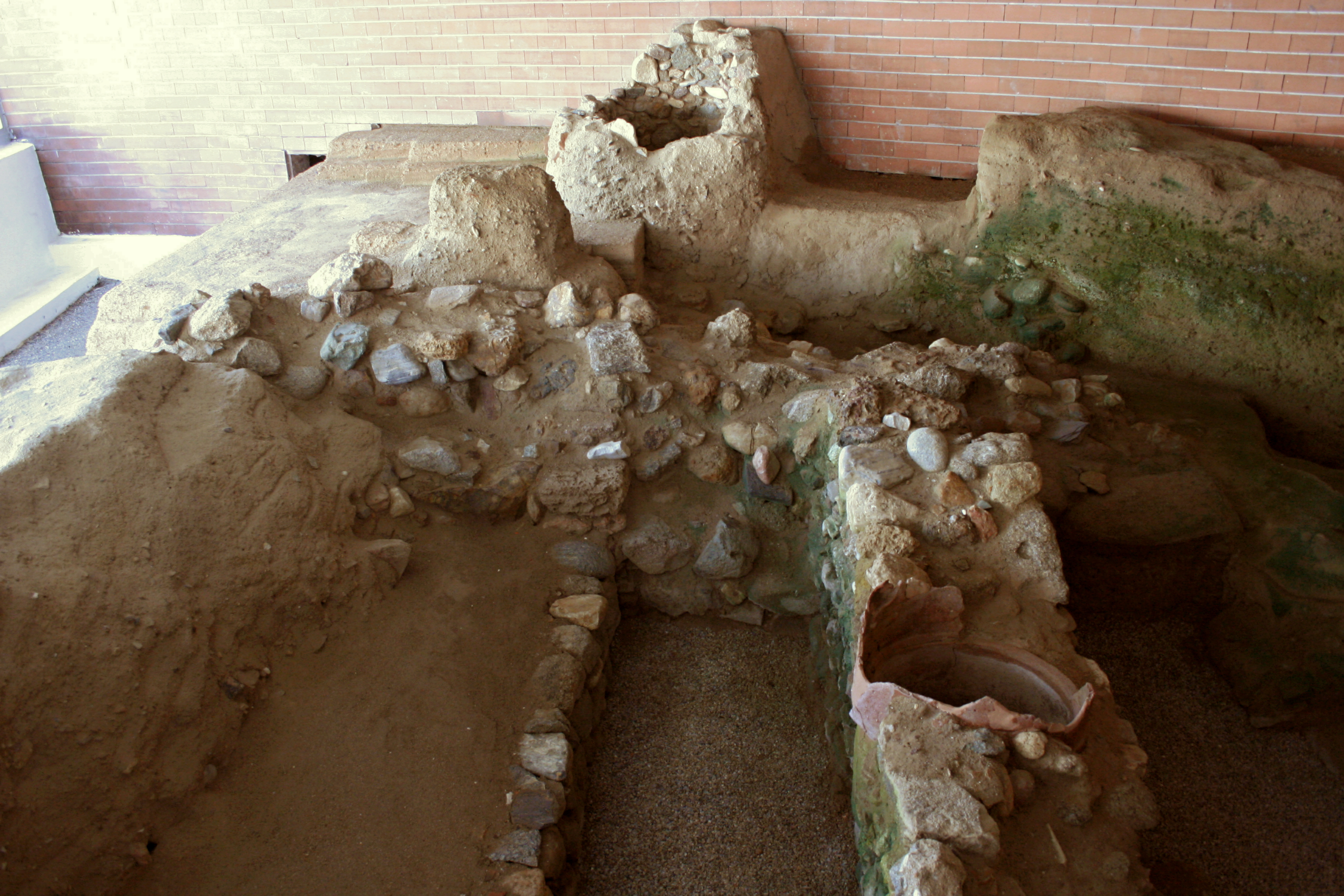 Late Mycenaean town, 1250-1000 BC. Grotta, Naxos.